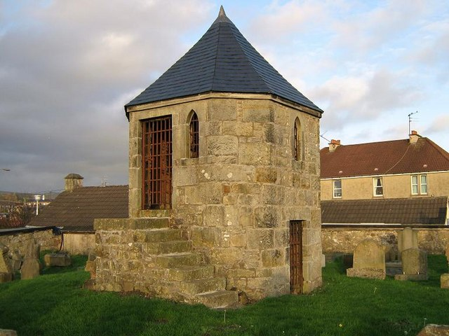 Tomb of Jean Cochrane and Son, Kilsyth Erected in the 19th century, the large tomb was built around an old vault that had once been part of the old church. The vault contains the earthly remains of Jean Cochrane and her son who died tragically in 1695. The story of their demise is carved into the stone on one face of the edifice. They were killed in Holland when the roof of a building collapsed.